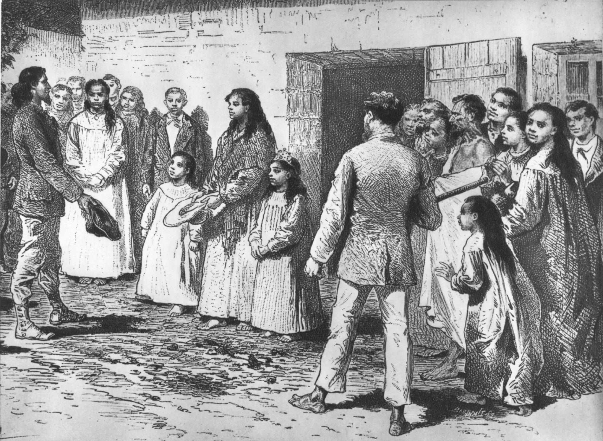 French explorer Alphonse Pinart, onetime husband of Zelia Nuttall, is introduced to the Queen of Easter Island in 1877. Drawing by Emile Bayard (1837-1891).